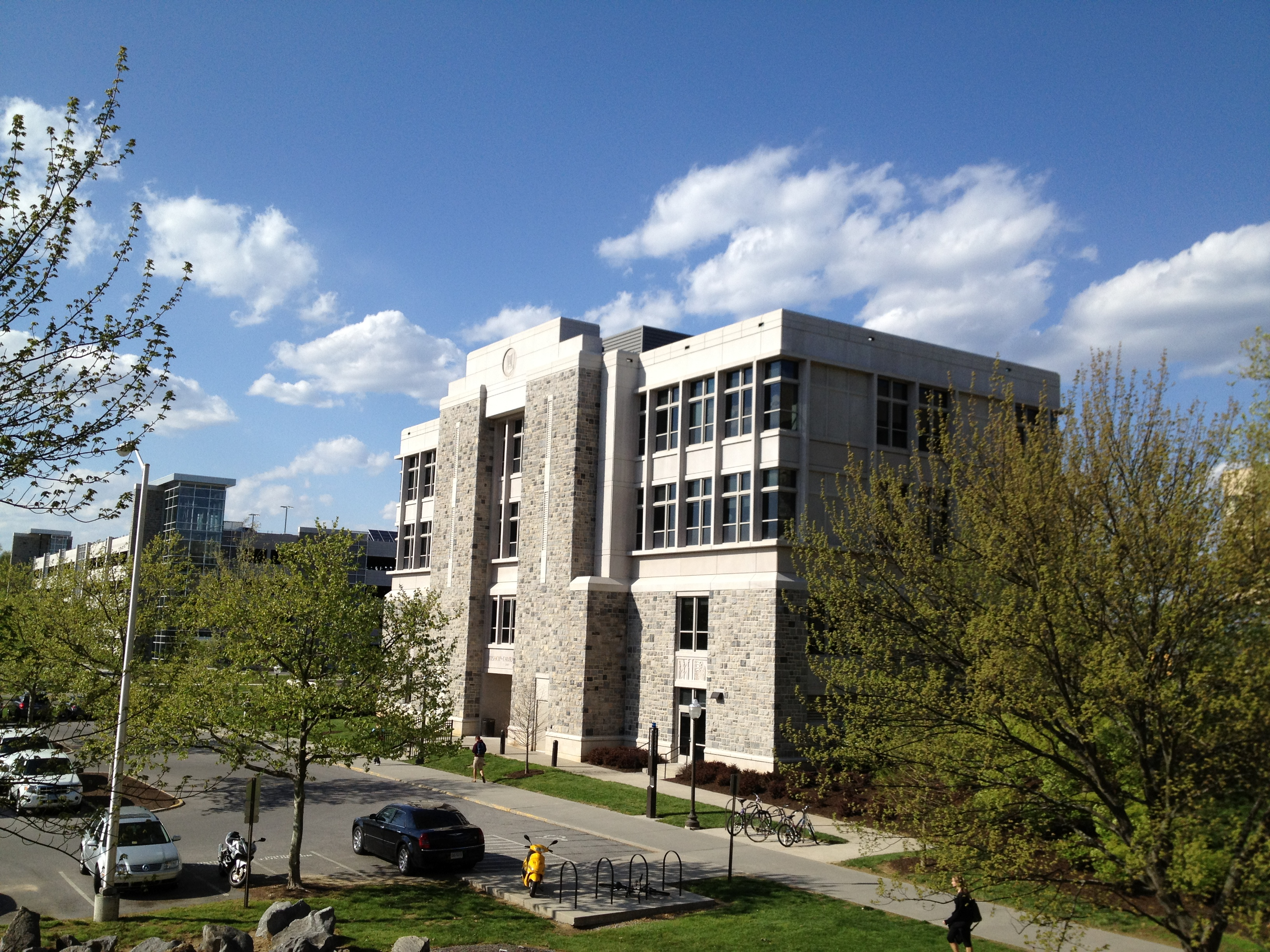 Bishop-Favrao Hall, Virginia Tech, Blacksburg, Virginia